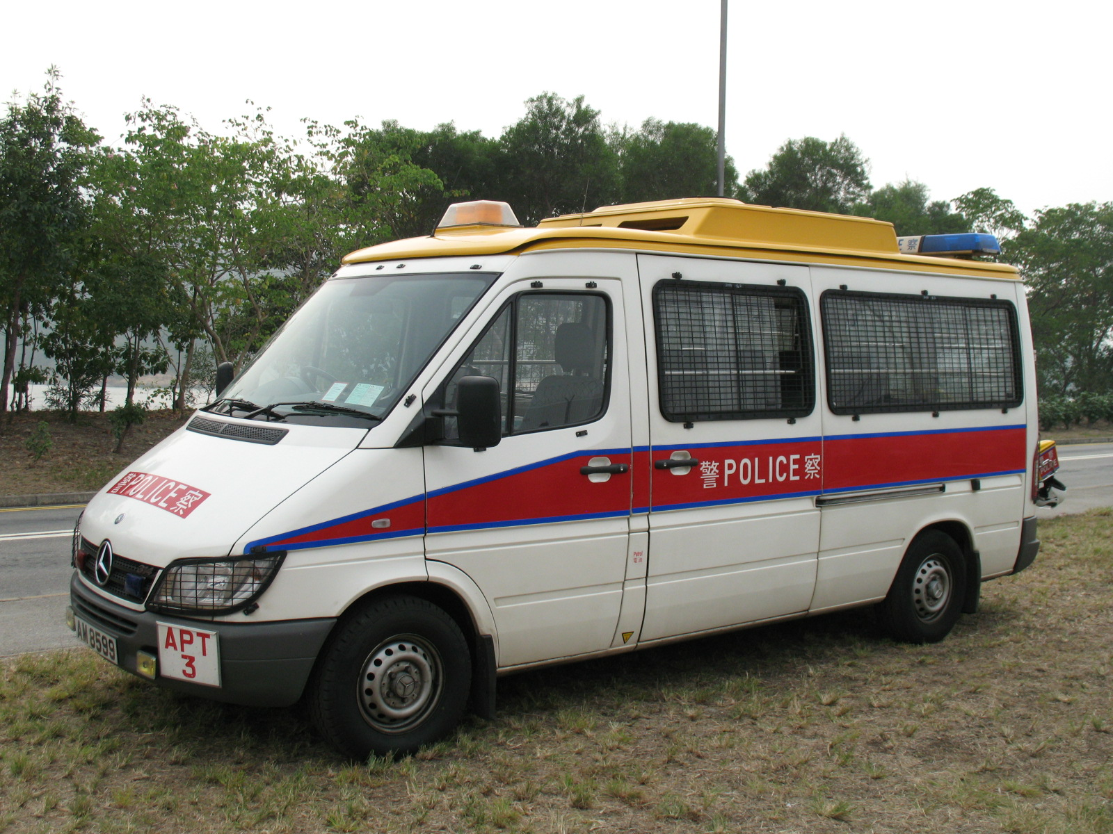 Mercedes-Benz Sprinter 314 Airport Police Patrol Car for Hong Kong Police Force. 中文（香港）: 一輛機場警區的機場警察巡邏車，型號是平治凌特314型，車頂方面與其他機場警區巡邏警車一樣看齊，一律髹上黃色車頂及配備黃色閃光燈和藍色閃光燈各一枚，方便駛入機場禁區巡邏。